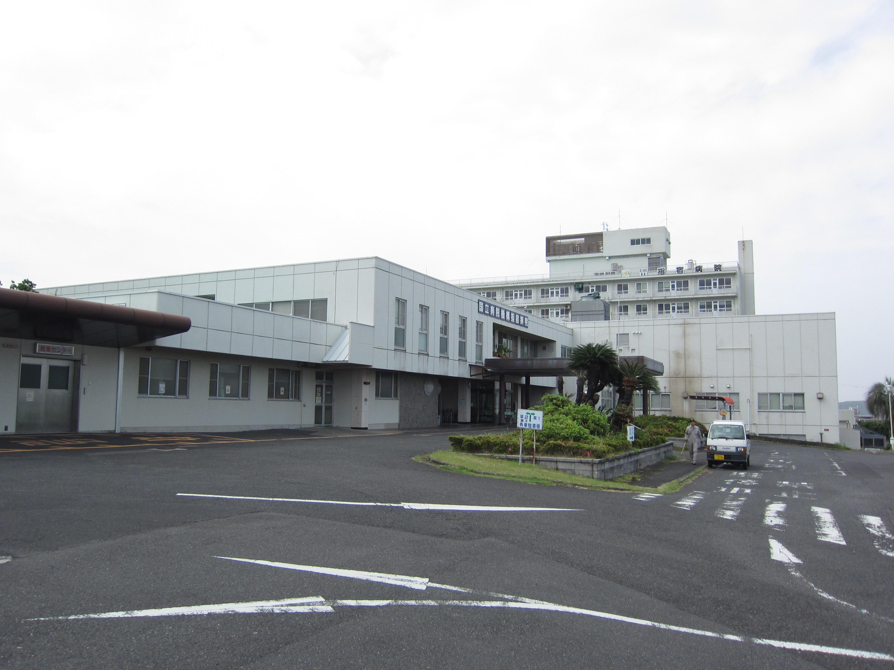 Ibusuki National Hospital